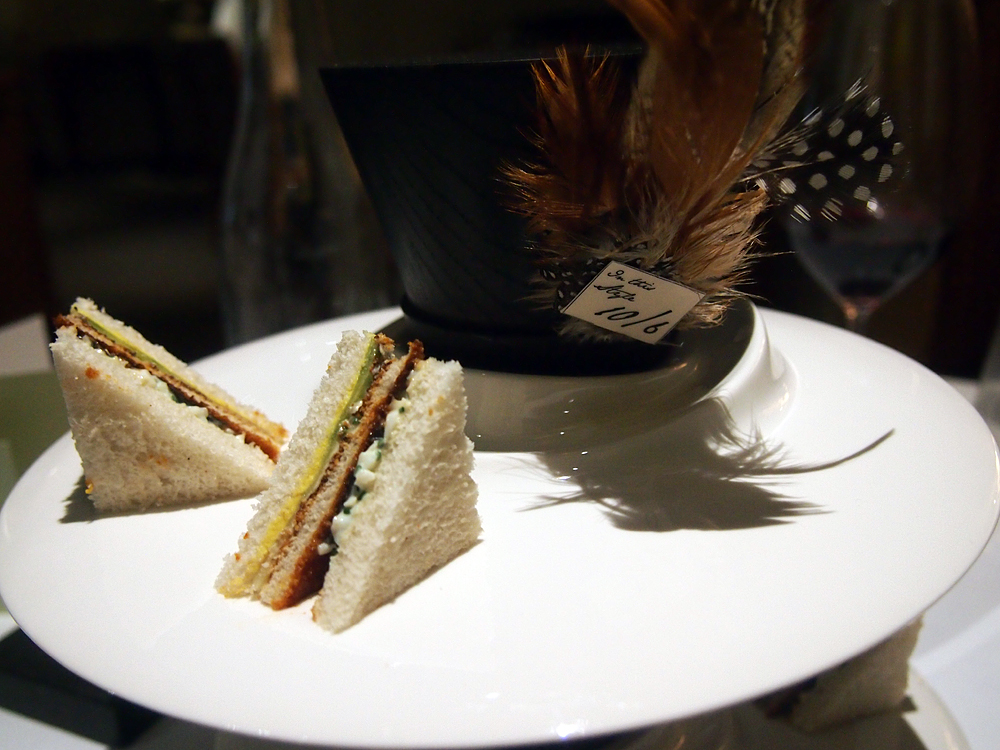 MAD HATTER'S TEA PARTY (c.1850) -- Mock Turtle Soup, Pocket Watch and Toast Sandwich. Taken at the Fat Duck restaurant.